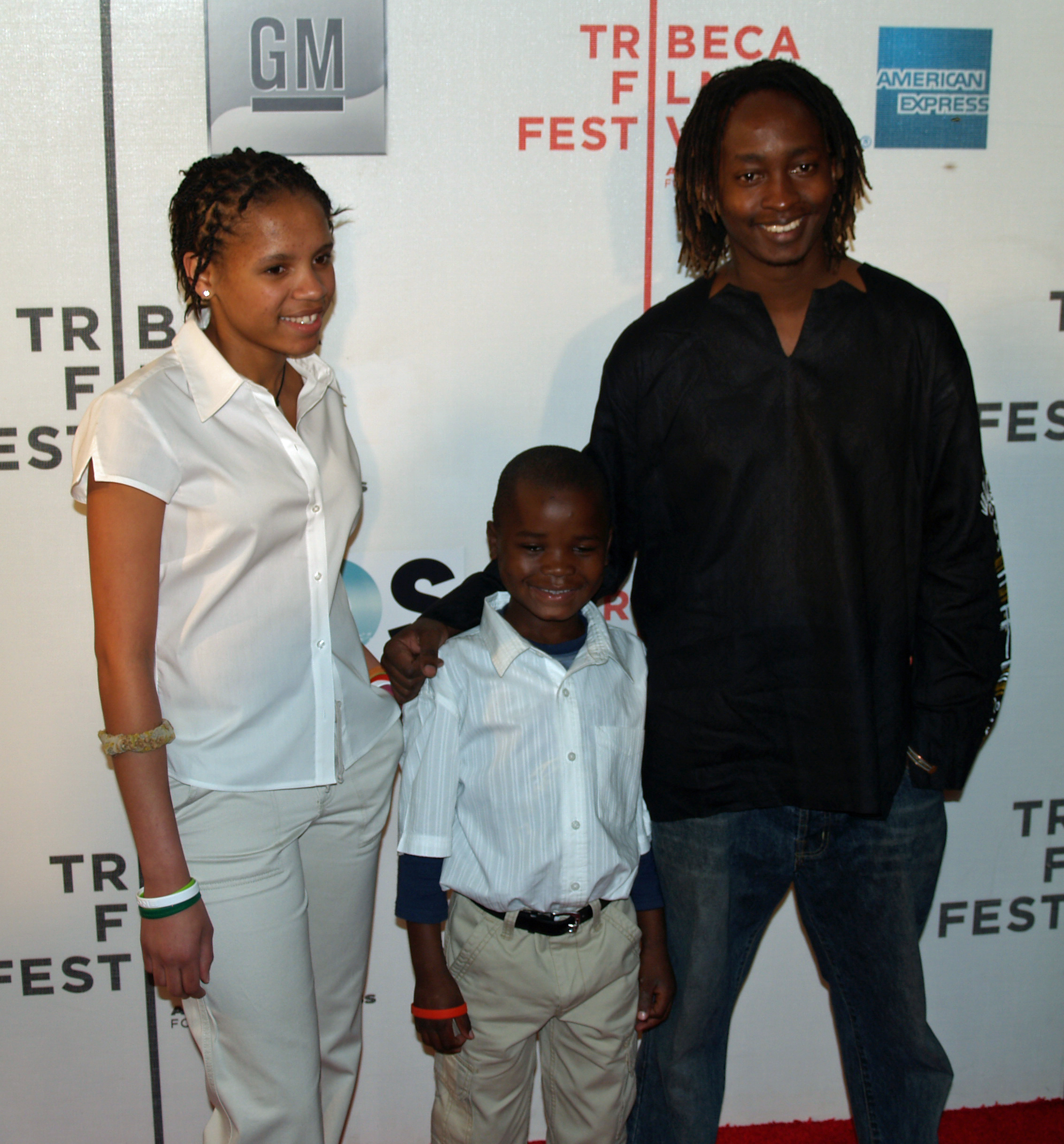 Children_from_movie_pose_with_Kenyan_musician,_Eric_Wainainaw:We_Are_Together by_David_Shankbone.jpg